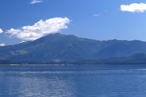 Akita-Komagatake Volcano as seen from WSW in Honshu, Japan. Taken from Lake Tazawa.